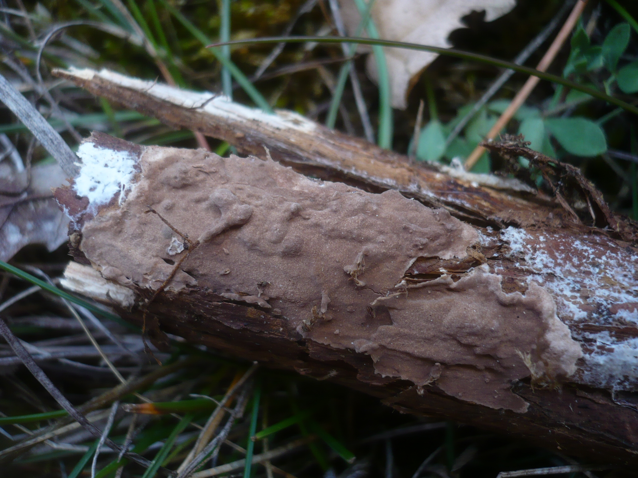 Amylostereum laevigatum (Fr.) Boidin Image location: Marayrade, Assier, France Recognized by sight: on juniper For more information about this, see the observation page at Mushroom Observer.